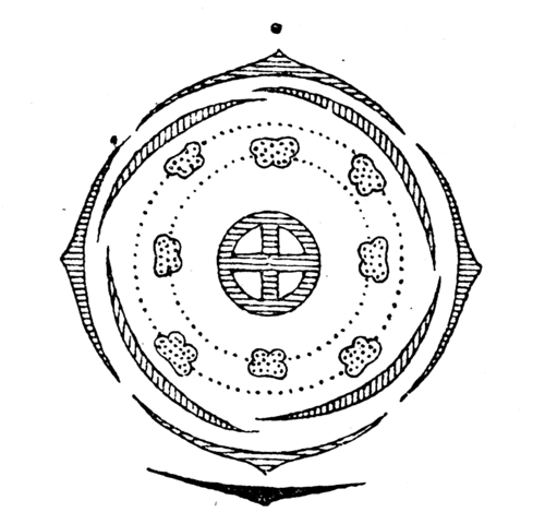 flower diagram of Oenothera